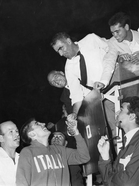 Nino Benvenuti with father Fernando at the Rome Olympics